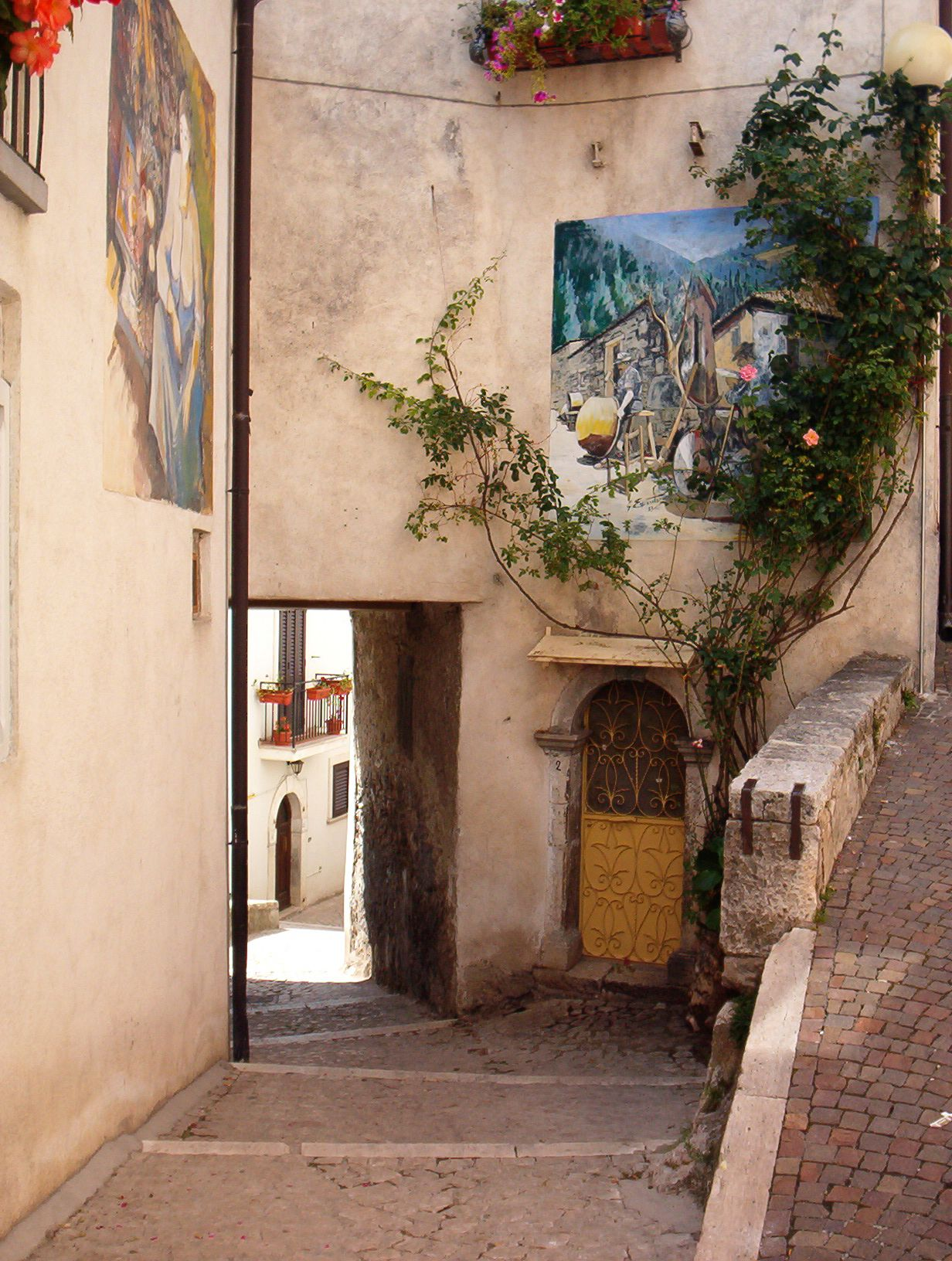 View of Scontrone, a nice little town in Italy (L'Aquila).